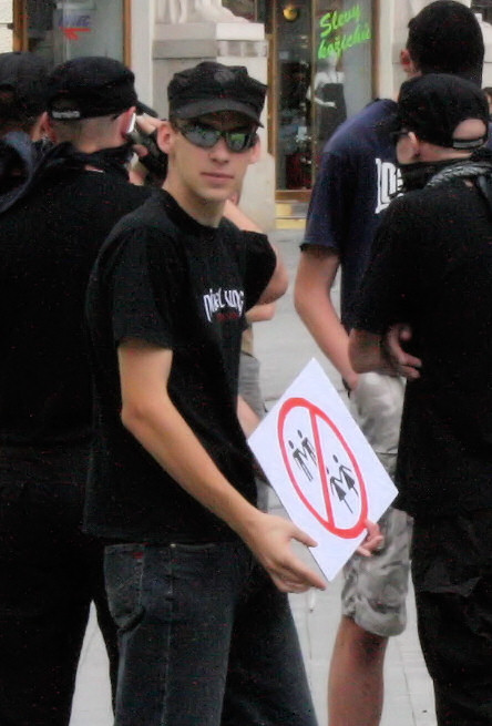 Participants of a protest against lesbian and gay marriages, Brno, Czech Republic.